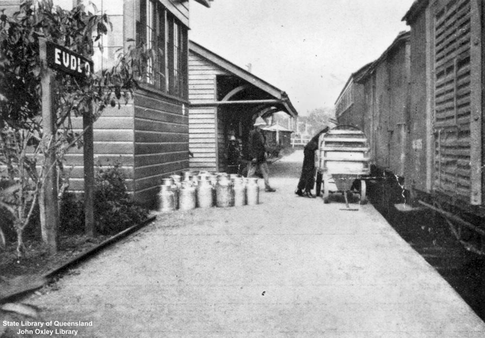 Cream cans standing on the platform of the Eudlo Railway Station, Eudlo, 1932 Cream cans standing on the platform of the Eudlo Railway Station awaiting transportation to Caboolture. Railway workers are loading goods into the carriages.